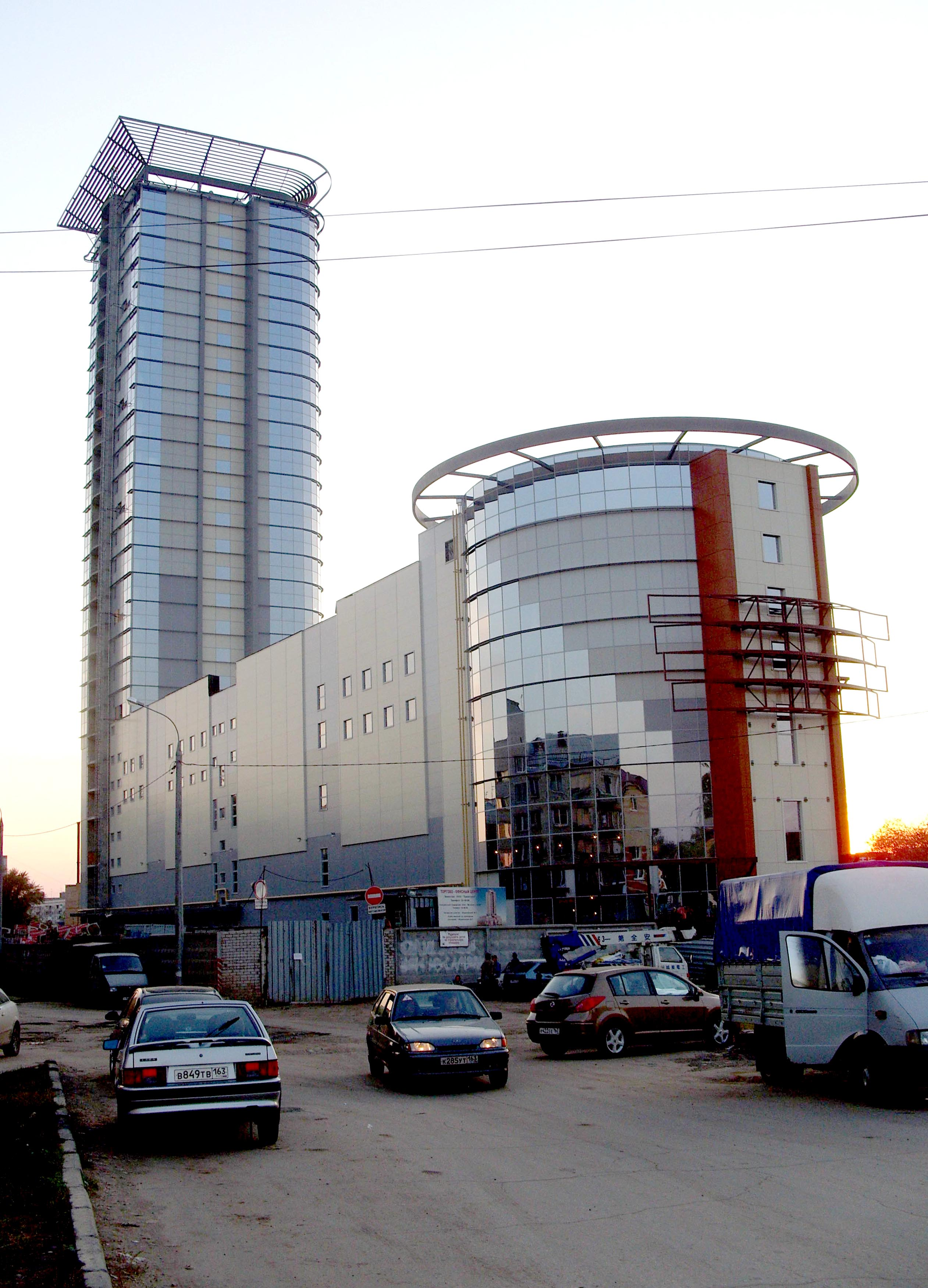 Vertikal plaza in Samara